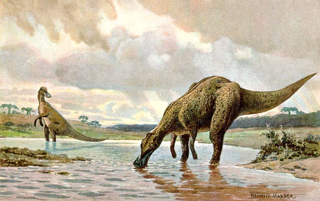 This reprodaction of a painting DUPA a hadrosaur of an undetermined (based on Edmontosaurus) genus and was made to illustrate one card of a set of 30 collector cards from "Tiere der Urwelt" (Animals of the Prehistoric World). From the series Ia. The set was inscribed 1916.